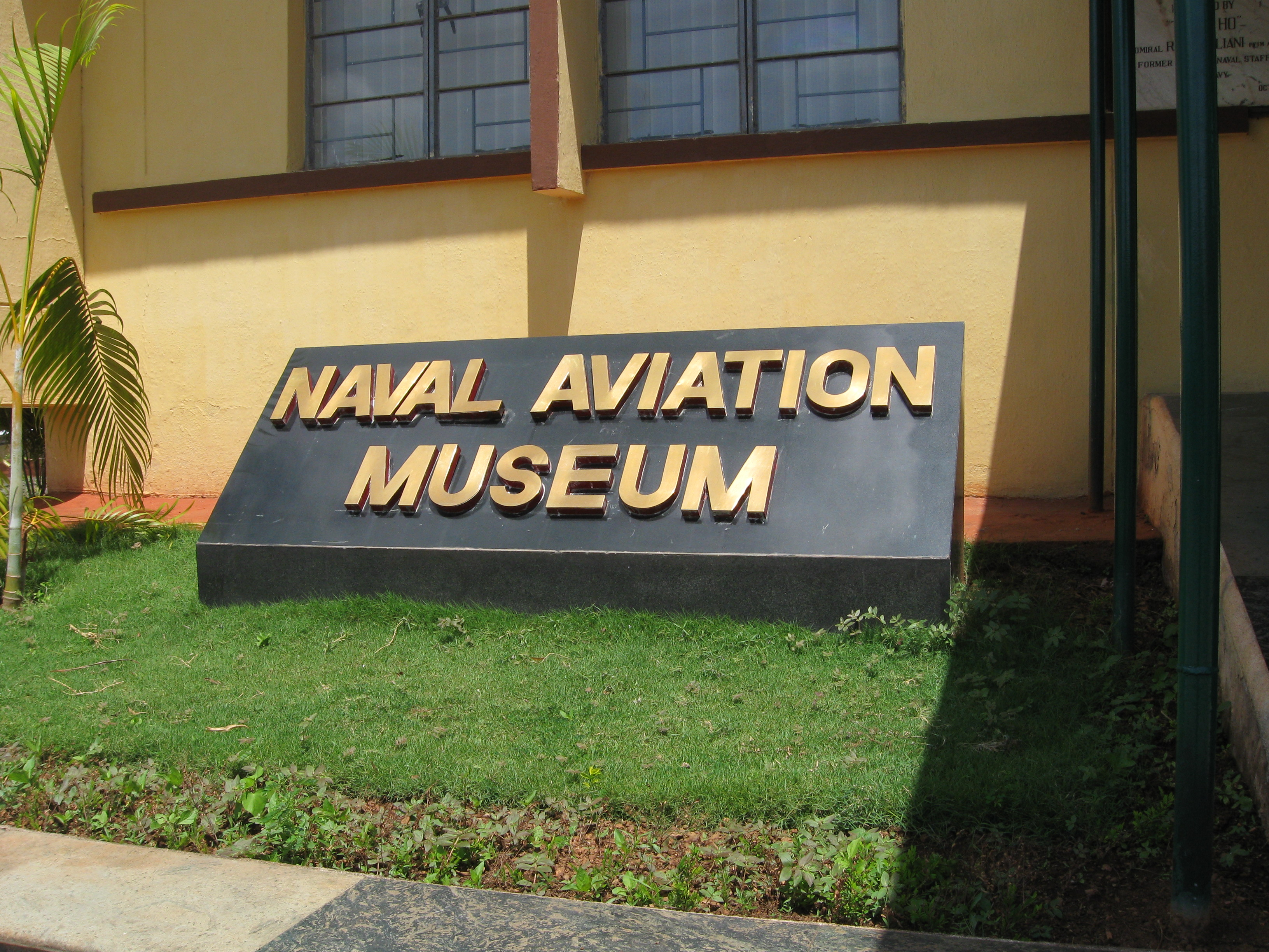 National Aviation Museum Goa